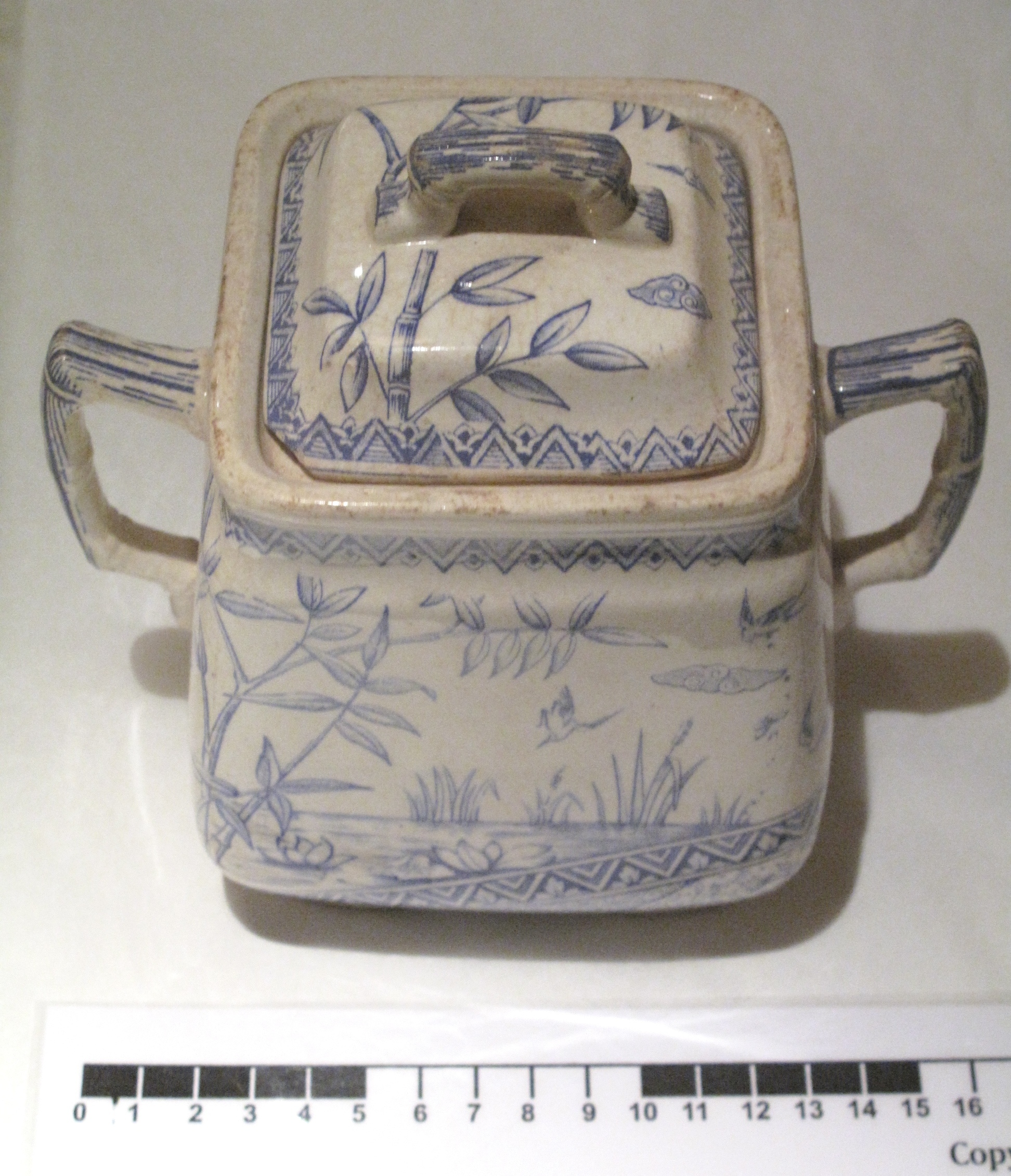 Loaf sugar jar; handles and lid; blue and white ceramic; square shaped, wider at base, corners rounded; pattern of bamboo, birds and borders; stamp of W H Grindley and Co with ship and globe